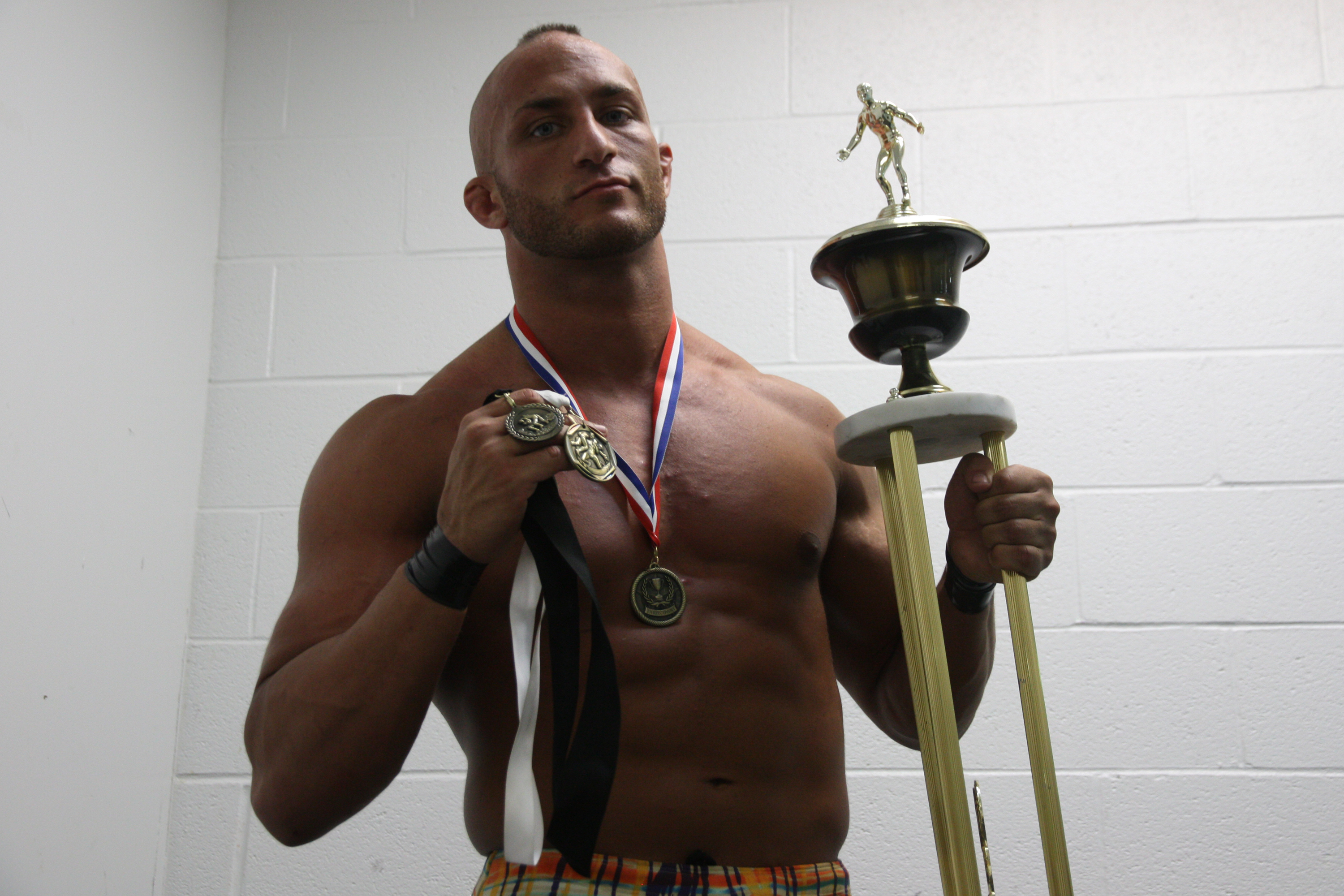 Tommaso Ciampa displaying awards related to the ECWA Super 8 Tournament. The 3 medals are for participating in the tournament in 2009, 2010 & 2011. The trophy held in his left hand is for winning the tournament in 2011.